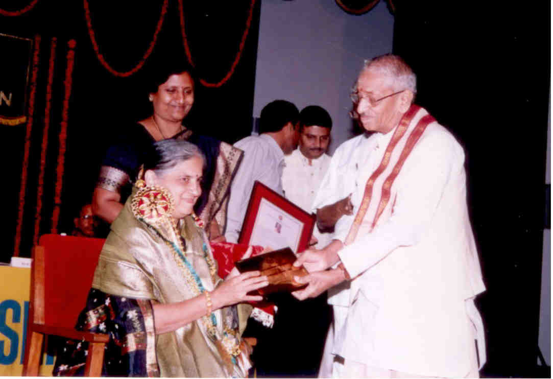 SUDHA MURTHY, Philanthropist, receiving Raja Lakshmi Award, Chennai, India